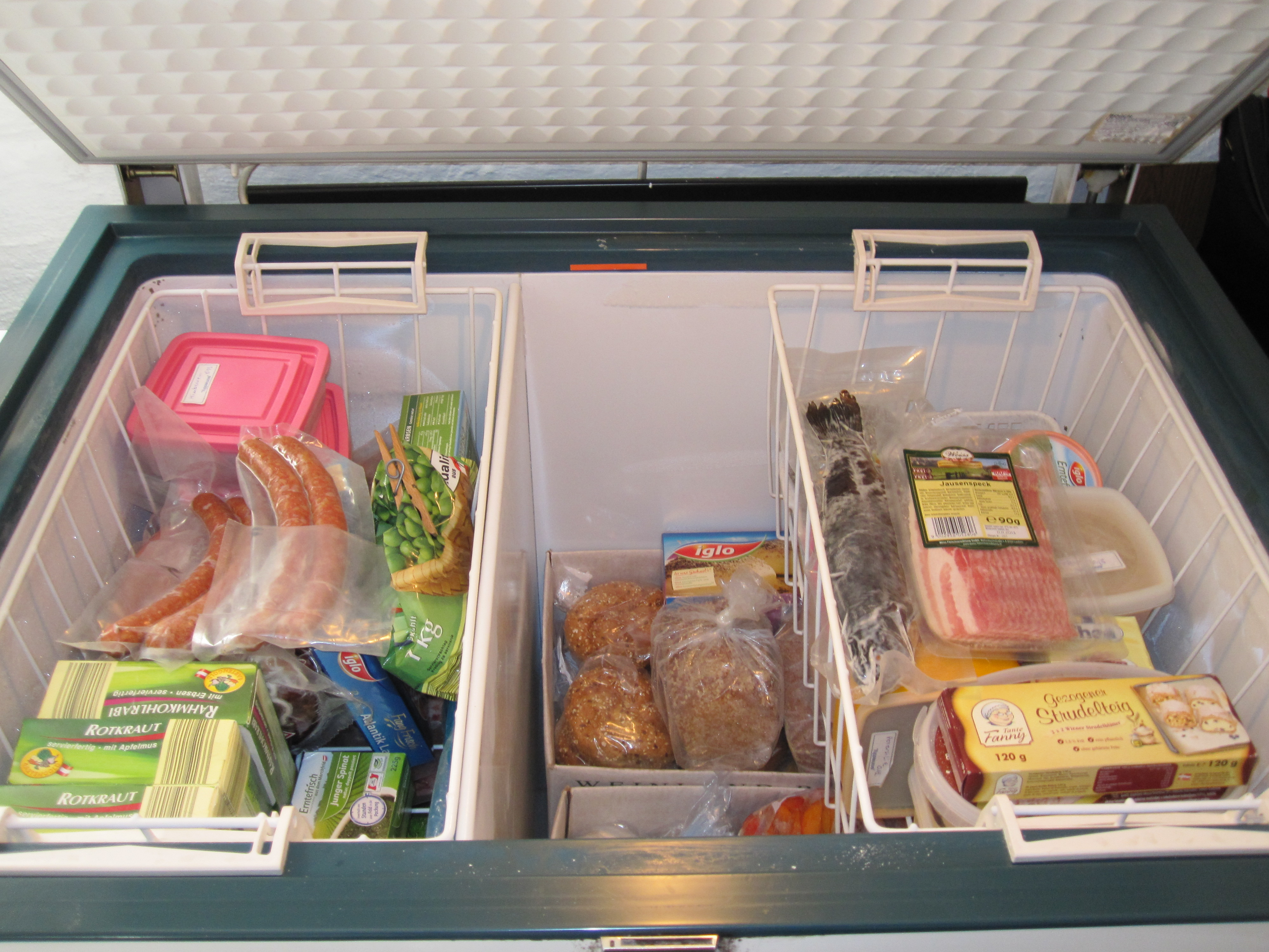 Freezer full groceries for crisis prevention.Emergency generator not forget.